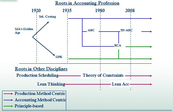 This timeline was created by Anton van der Merwe and included in the Managerial Costing Conceptual Framework session presented at IMA's Annual Conference on Sep 7, 2011 in Orlando, FL.